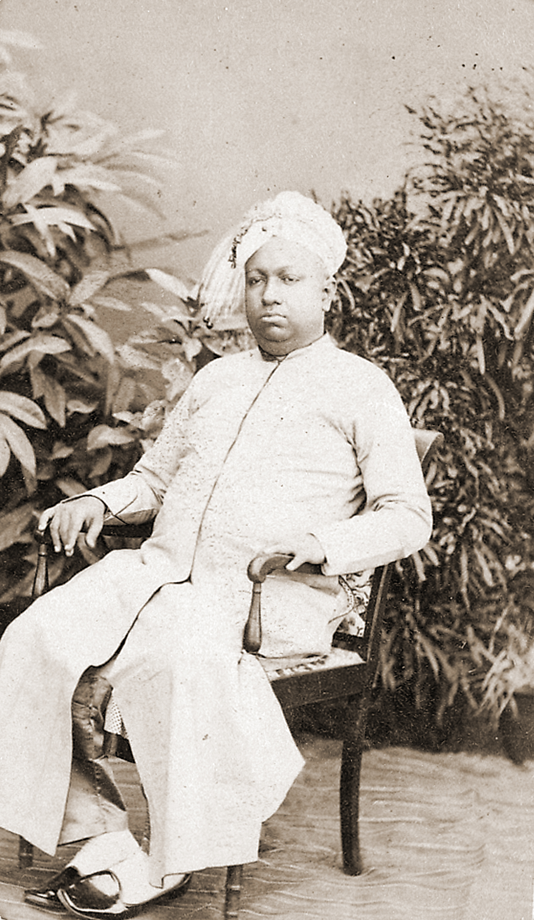 Ayilyam Thirunal Bala Rama Varma II, Travancore (1832-1880).